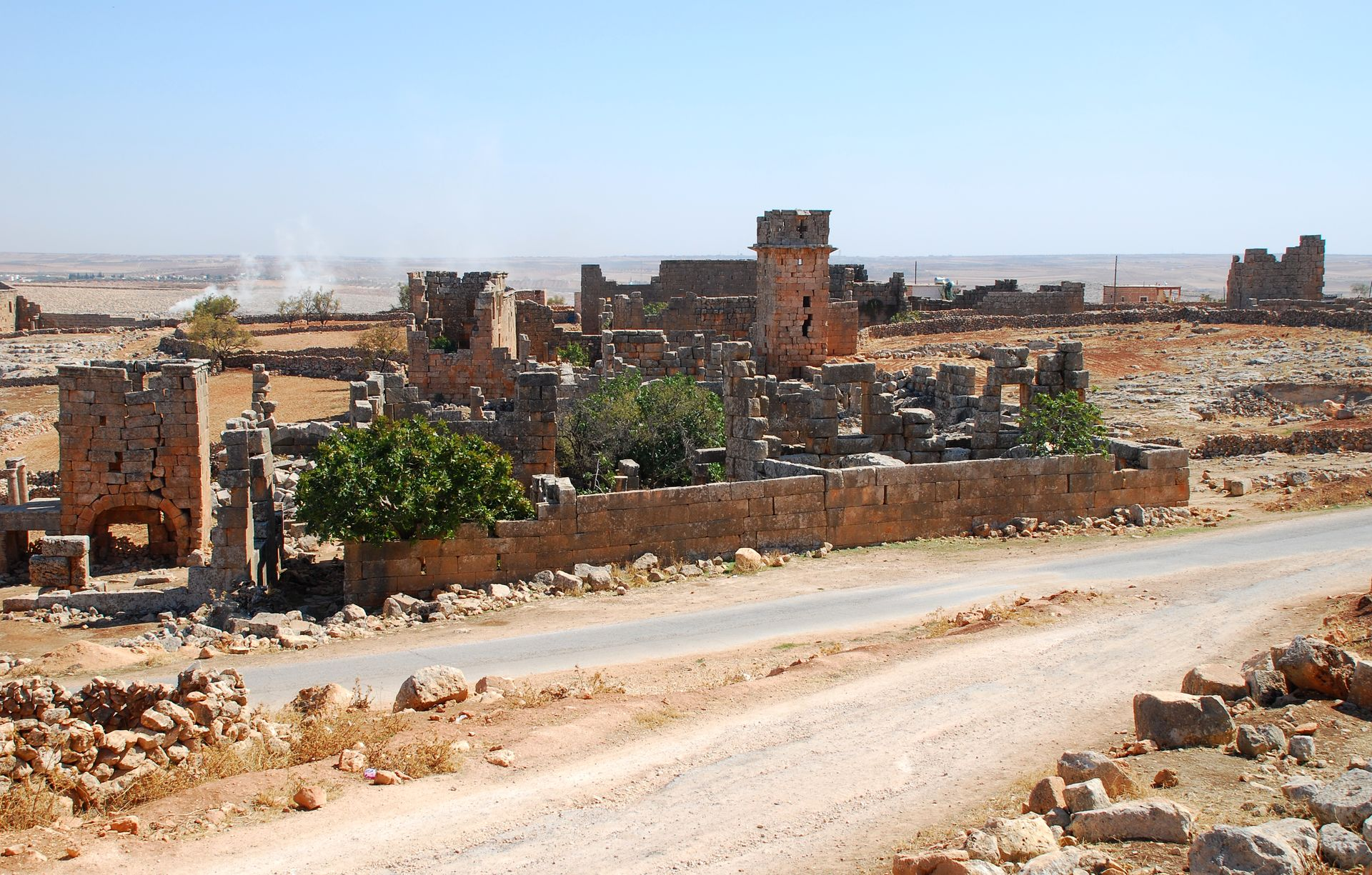 Jerada or Gerada, dead city in Syria, lower part